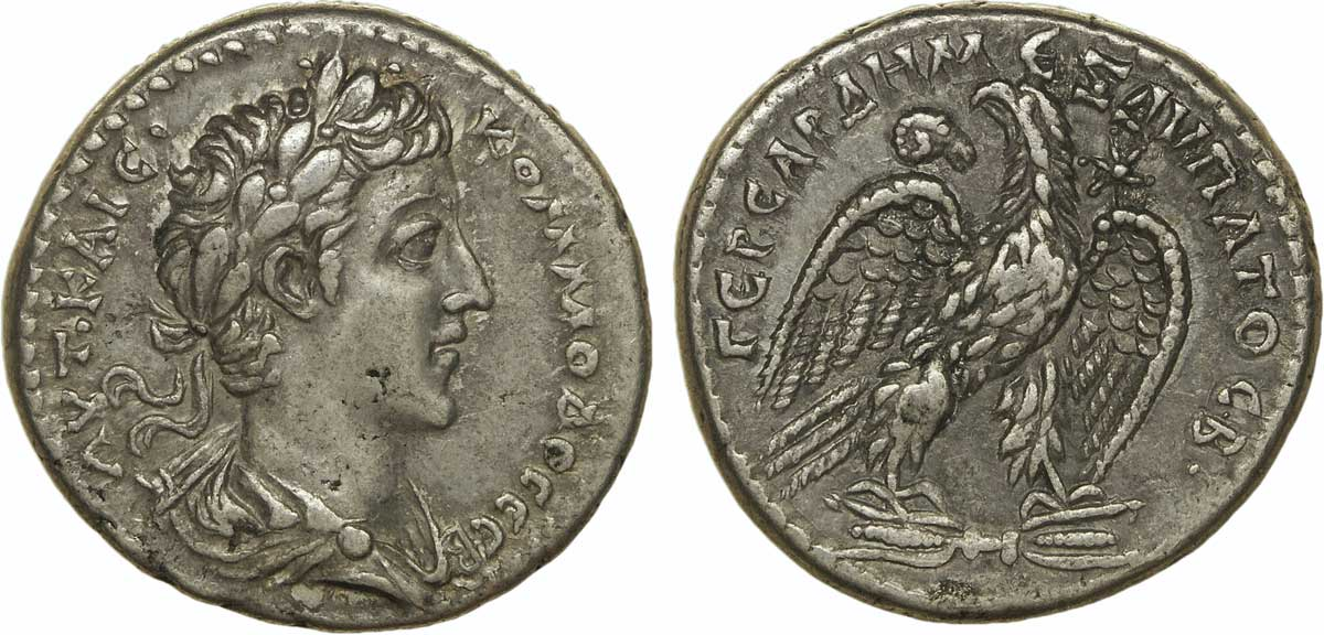 Commode